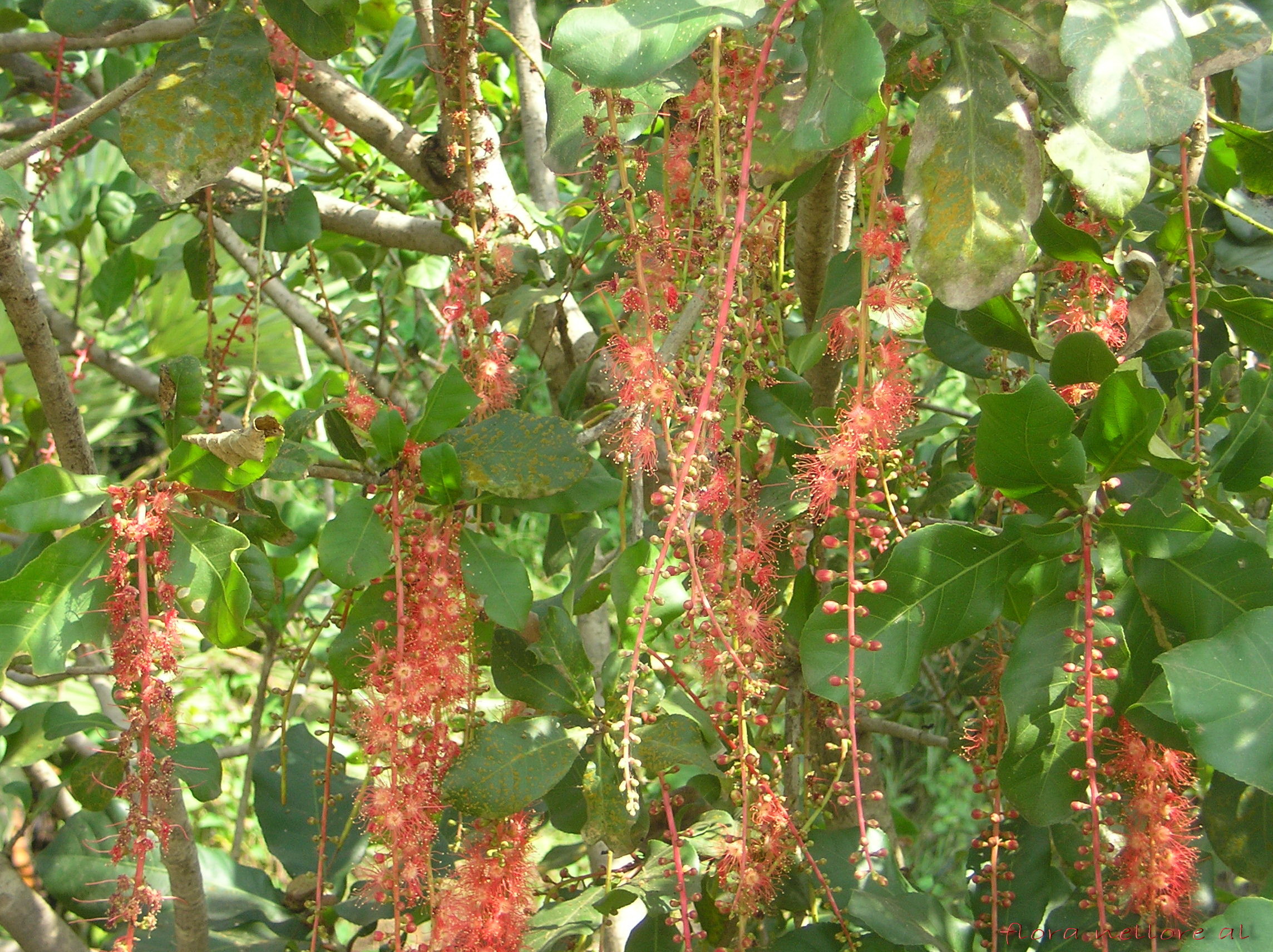 Family: Barringtoniaceae Distribution: Common along the bunds of tanks, swamps, associated with Terminalia, Pongamia. Found in India, Srilanka, Singapore, Malaysia. It is the common bird nesting tree at Nelapattu, Pulicat bird sanctuaries in the district for migratory birds coming from far off countries like Saiberia.Photographed at Nelapattu . Description: evergreen trees, 5-8mts tall, densly and pendently branched. Leaves 7-12x 4-7cm, oblong-obovate, crenulate, obtuse, base attenuate, coriaceous. Flowers 1-1.2cm across, scarlet in 10-15cm long axillary, pendent racemes.Calyx 5, tube scacely above the ovary, petals 4, adnate at the base to the staminal tube. Stamens numerous, in many rows, connate below, filaments filiform, exerted, all are fertile. ovary inferior, 2 celled, style filiform, stigma small. fruit angular 2-5-3cm long, fibrous berry, one seeded,. Stem bark and rind of fruit is used as fish poison, Wood is soft white, used for building boats and furniture. Reference: Flora of Nellore district by B.Suryanarayana & A.S.Rao.Flora of presidency of Madras by J.S Gamble, ENVIS